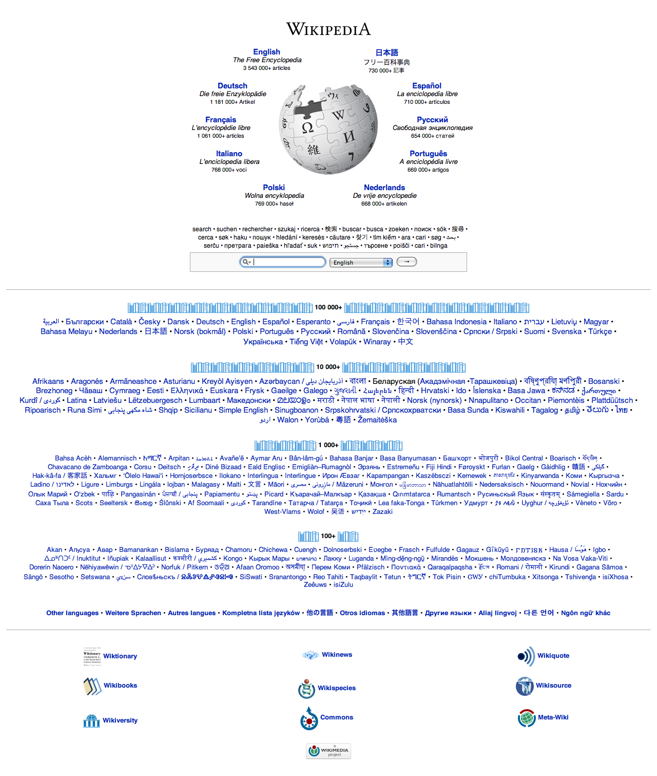 Screen photo of Wikipedia's multilingual portal at The ten largest language editions (by number of articles) are arranged around the Wikipedia logo. The remaining "active" editions (those with more than 100 articles) are grouped by size. Links at the bottom of the page lead to the Main Pages of Wikispecies, Meta-Wiki and Commons, and the multilingual portals for Wikipedia's other sister projects.